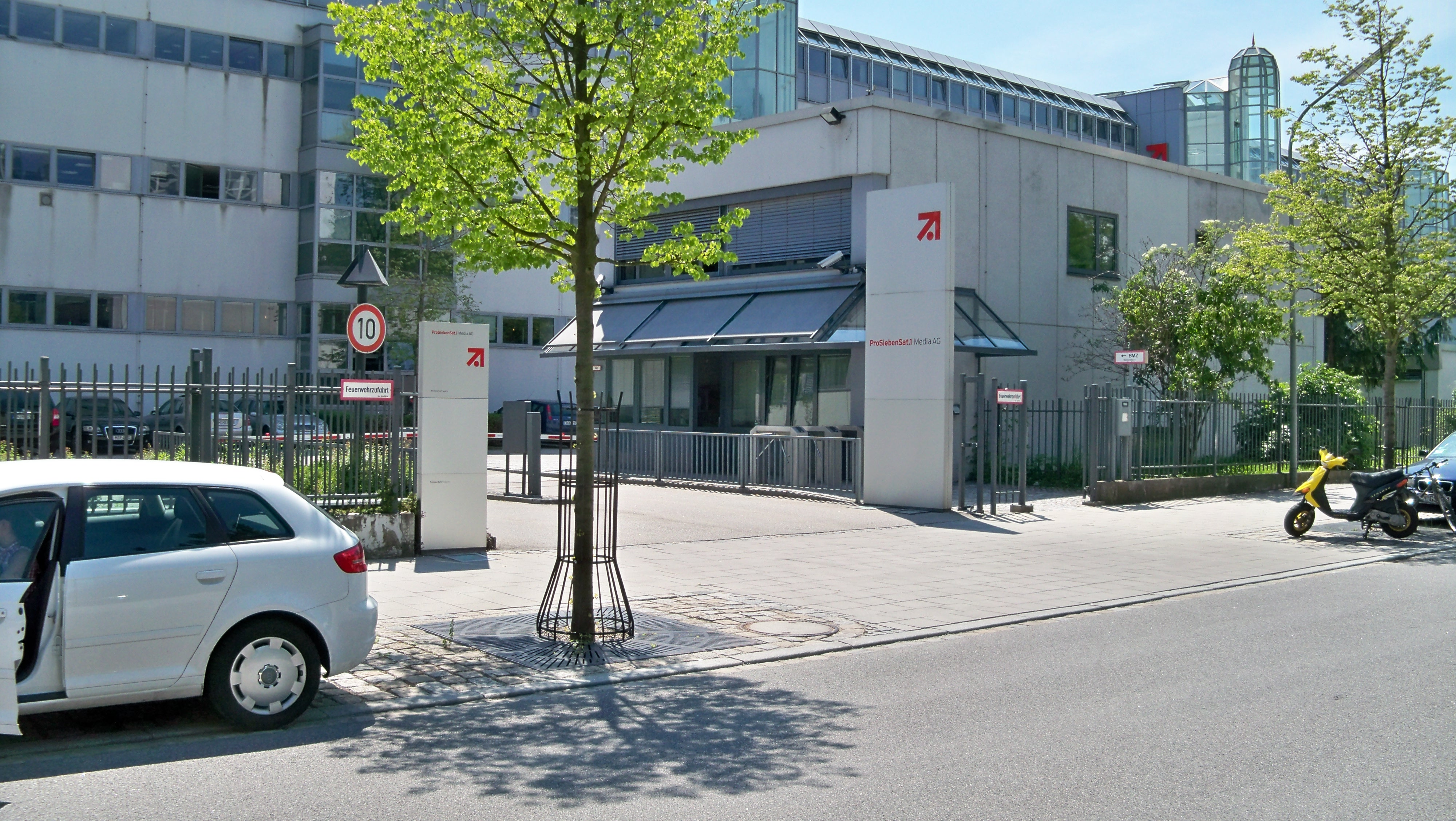 Entrance of ProSiebenSat.1 Media in Unterföhring, Germany.